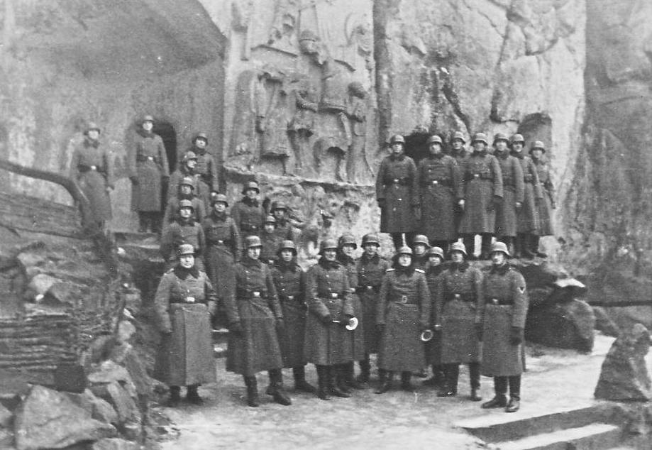 Break from a Wehrmacht unit for a car march exercise at Externsteine, 1939